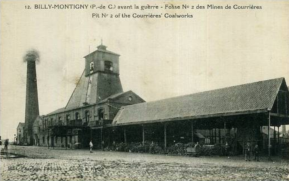 Billy-Montigny, France.